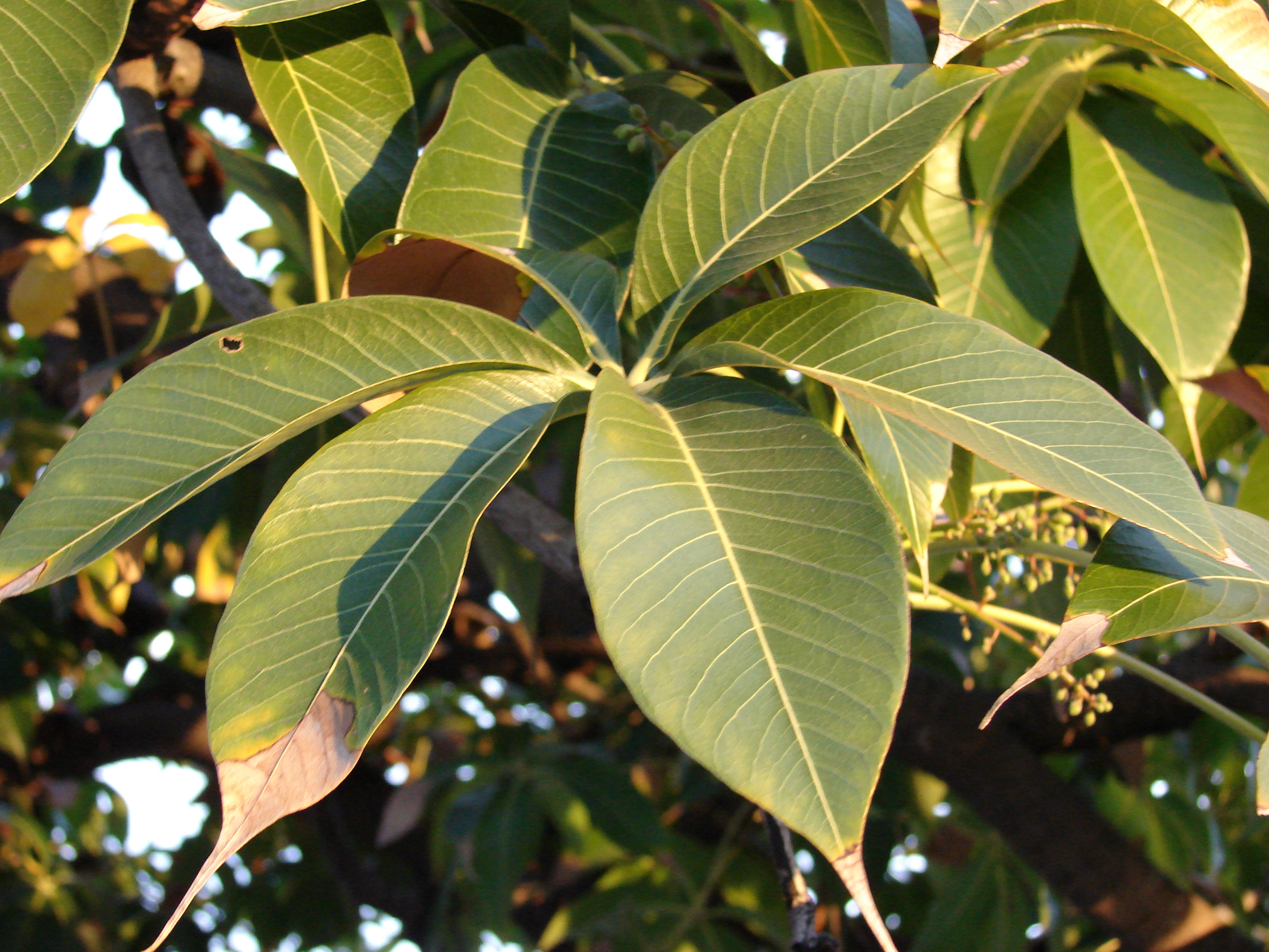 Sterculia foetida (leaves). Location: Oahu, Ala Moana Beach Park